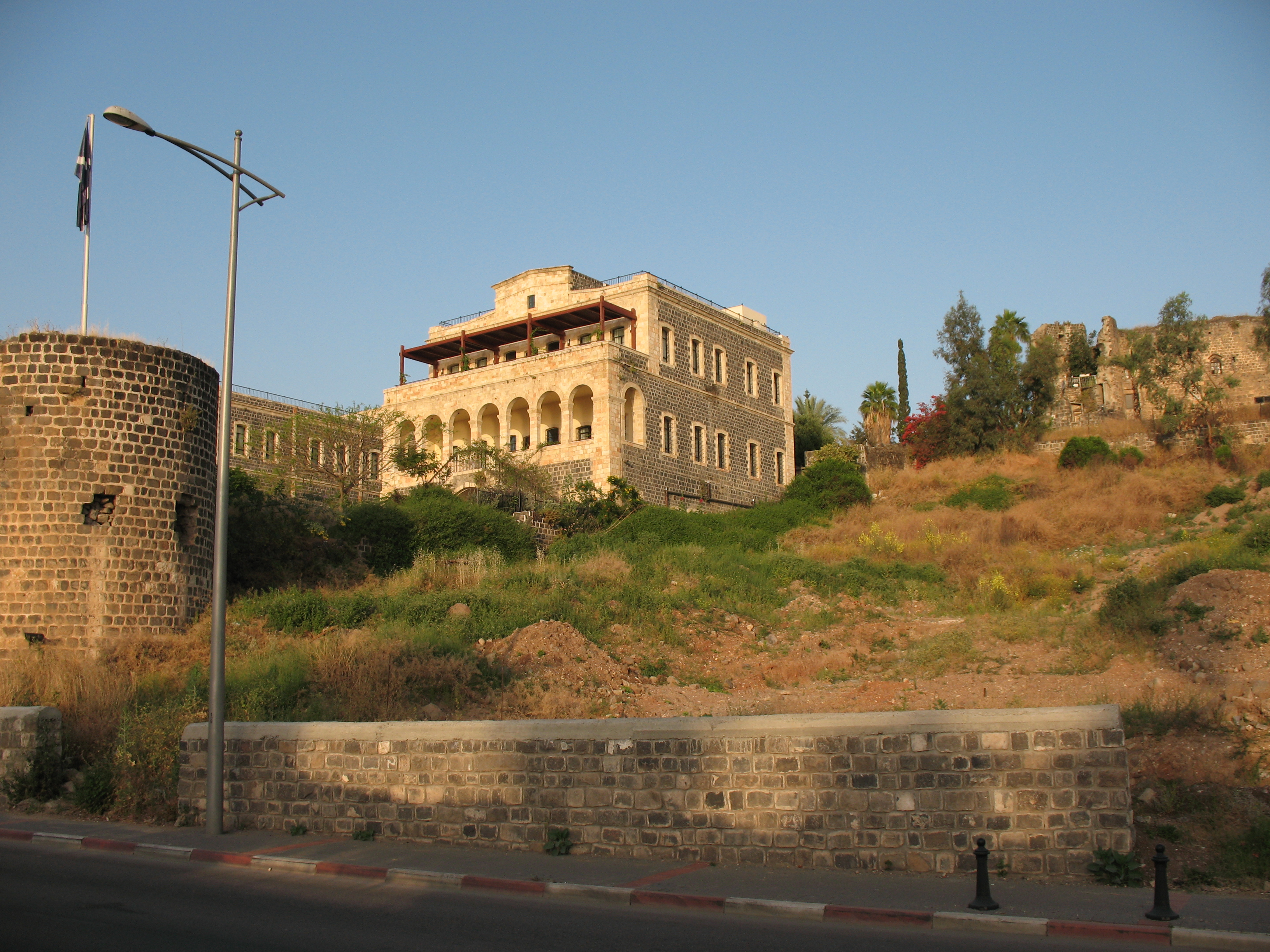 Property belongs to St. Andrew's (Church of Scotland). When it opened in 1894, it was Tiberias' first hospital. When the hospital closed in the 1950s, it was turned into a guest house for pilgrims. In 1999, the Scots Hotel was created by remodeling some of the old buildings and constructing a modern one.